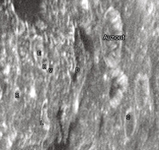 Auzout lunar crater as seen from Earth with satellite craters labeled